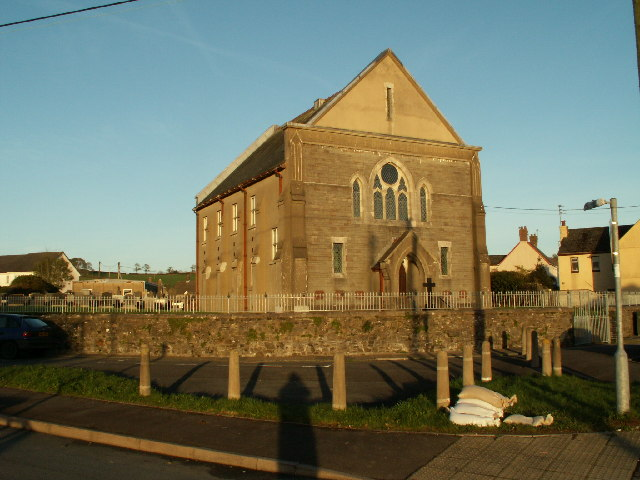 Capel Ebeneser Ebeneser, Capel yr Annibynwyr / Ebenezer Independent Chapel, Abergwili